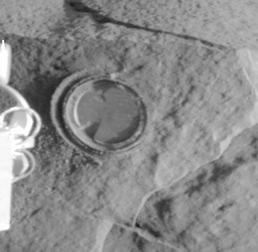 The round, shallow depression in this image resulted from history's first grinding of a rock on Mars. The rock abrasion tool on NASA's Spirit rover ground off the surface of a patch 45.5 millimeters (1.8 inches) in diameter on a rock called Adirondack during Spirit's 34th sol on Mars, Feb. 6, 2004. The hole is 2.65 millimeters (0.1 inch) deep, exposing fresh interior material of the rock for close inspection with the rover's microscopic imager and two spectrometers on the robotic arm. This image was taken by Spirit's panoramic camera, providing a quick visual check of the success of the grinding. The rock abrasion tools on both Mars Exploration Rovers were supplied by Honeybee Robotics, New York, N.Y.